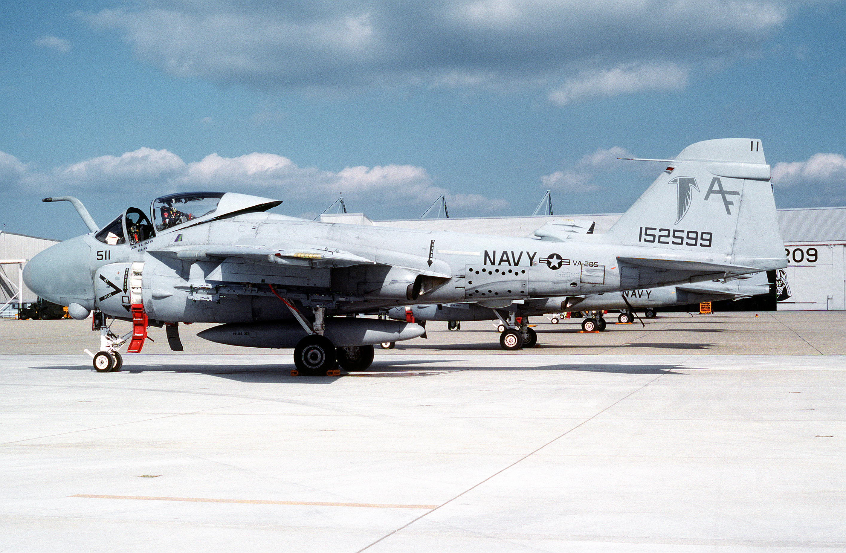 A U.S. Navy Reserve Grumman A-6E Intruder (BuNo 152599) of Attack Squadron VA-205 "Green Falcons" at Naval Air Facility Washington D.C., in 1993.